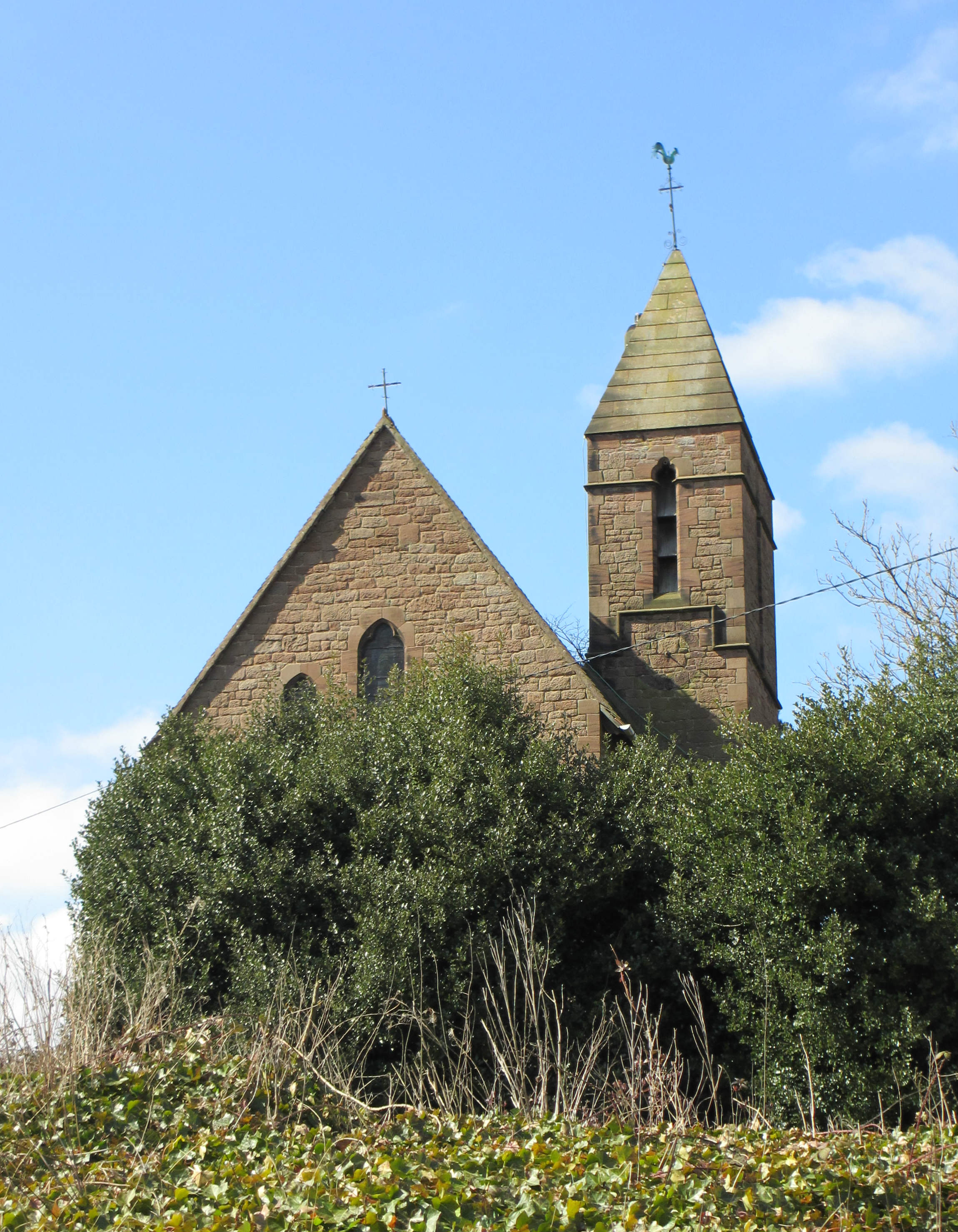 St John and Holy Cross parish church, Cotebrook, Cheshire, seen from the east